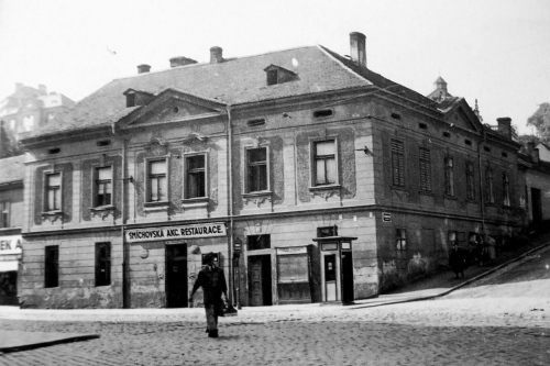 Demartinka was the rural homestead near a garden Klamovka at Prague 5, Smíchov Street "U Demartinky" house number 152. In the time before World War II functioned on the ground floor "Joint stock Smíchov restaurant." The building was demolished in 1980.